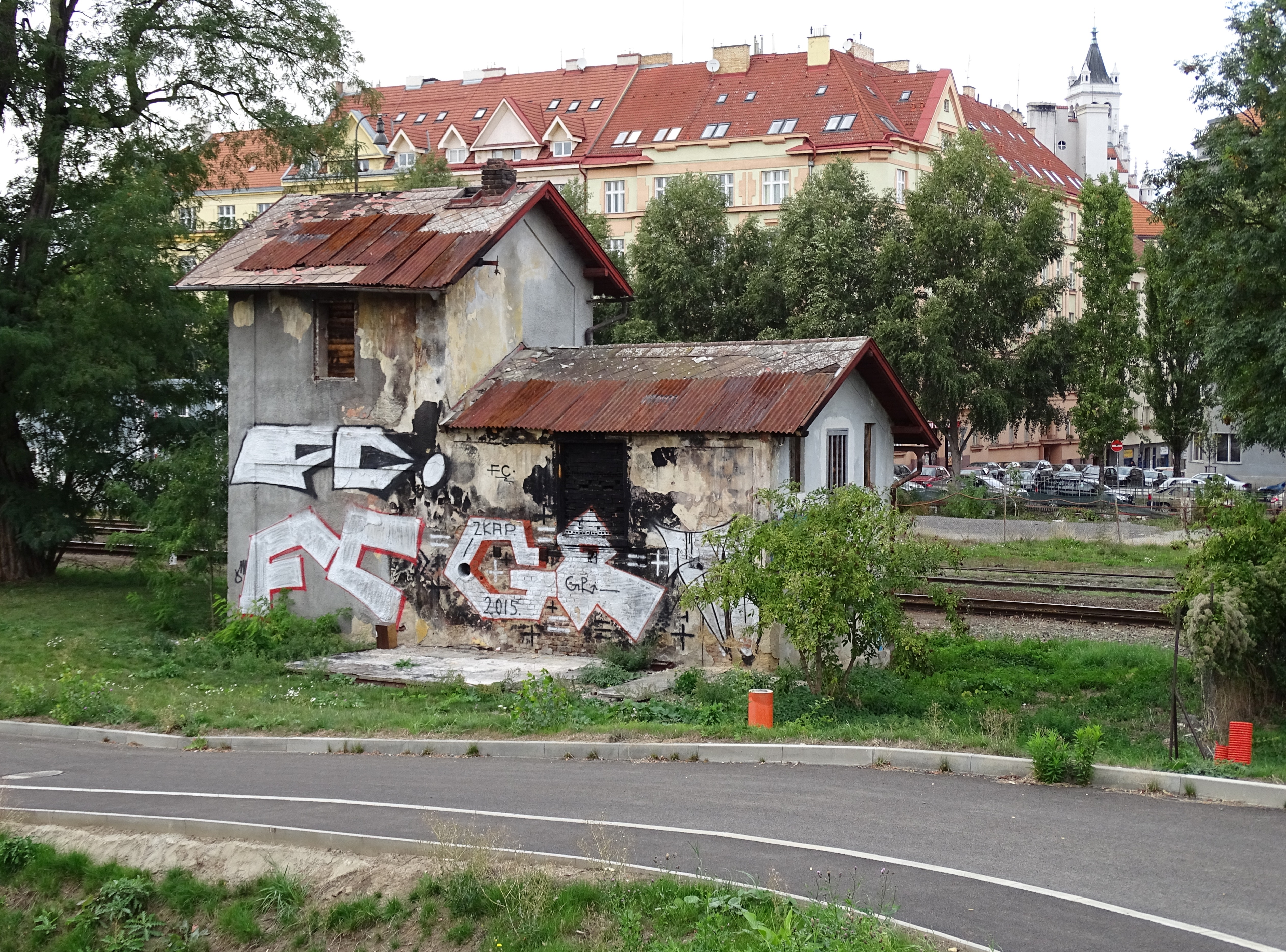 Prague-Dejvice, Czech Republic. Train station Praha-Dejvice.